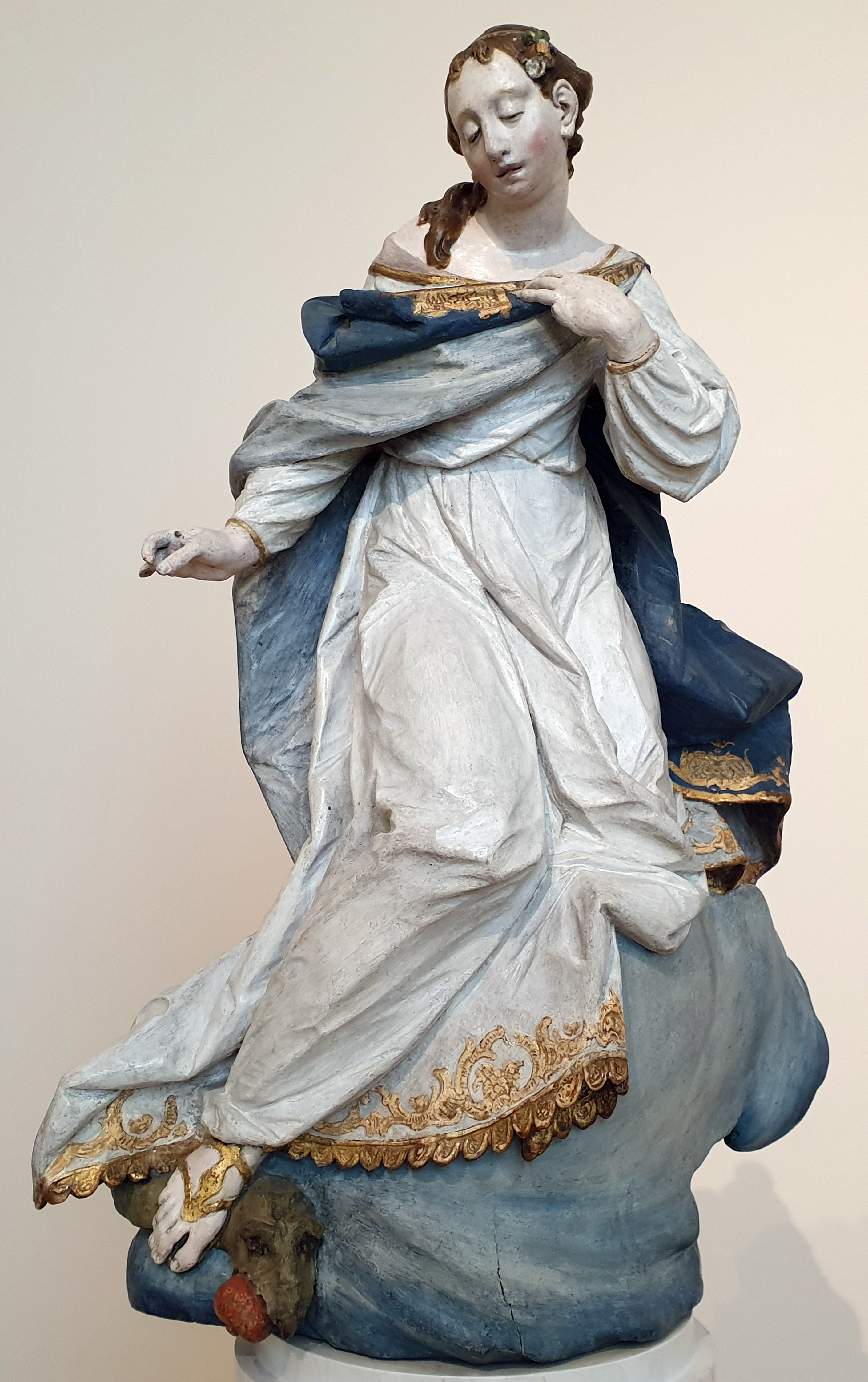 Ignaz Günther, 1750/1760: Mary Immaculate. Inv. 5552, basswood. Exhibited in the Bode-Museum Berlin, Germany.